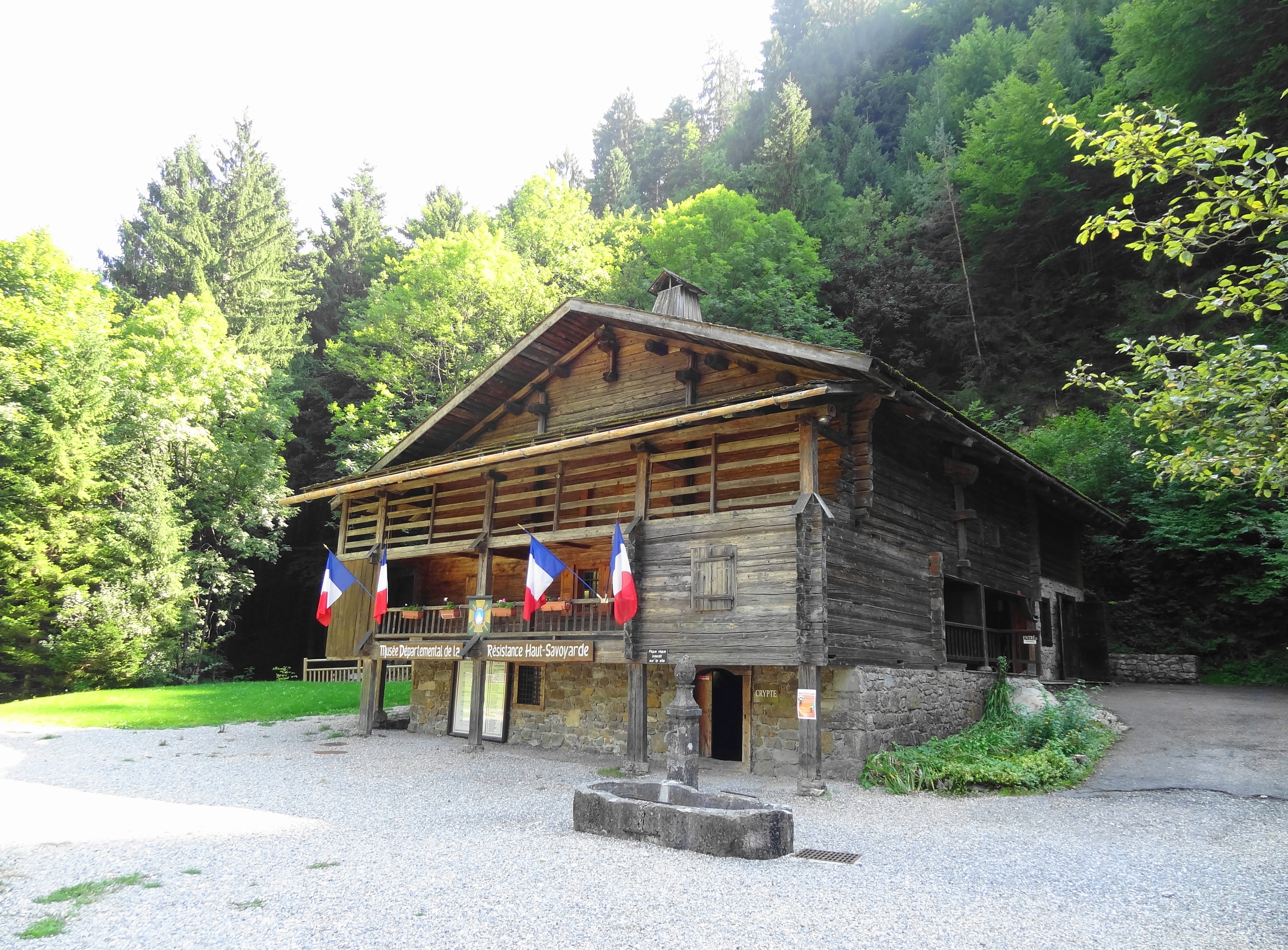 French Resistance Museum in Thônes (Upper Savoy), French Alps